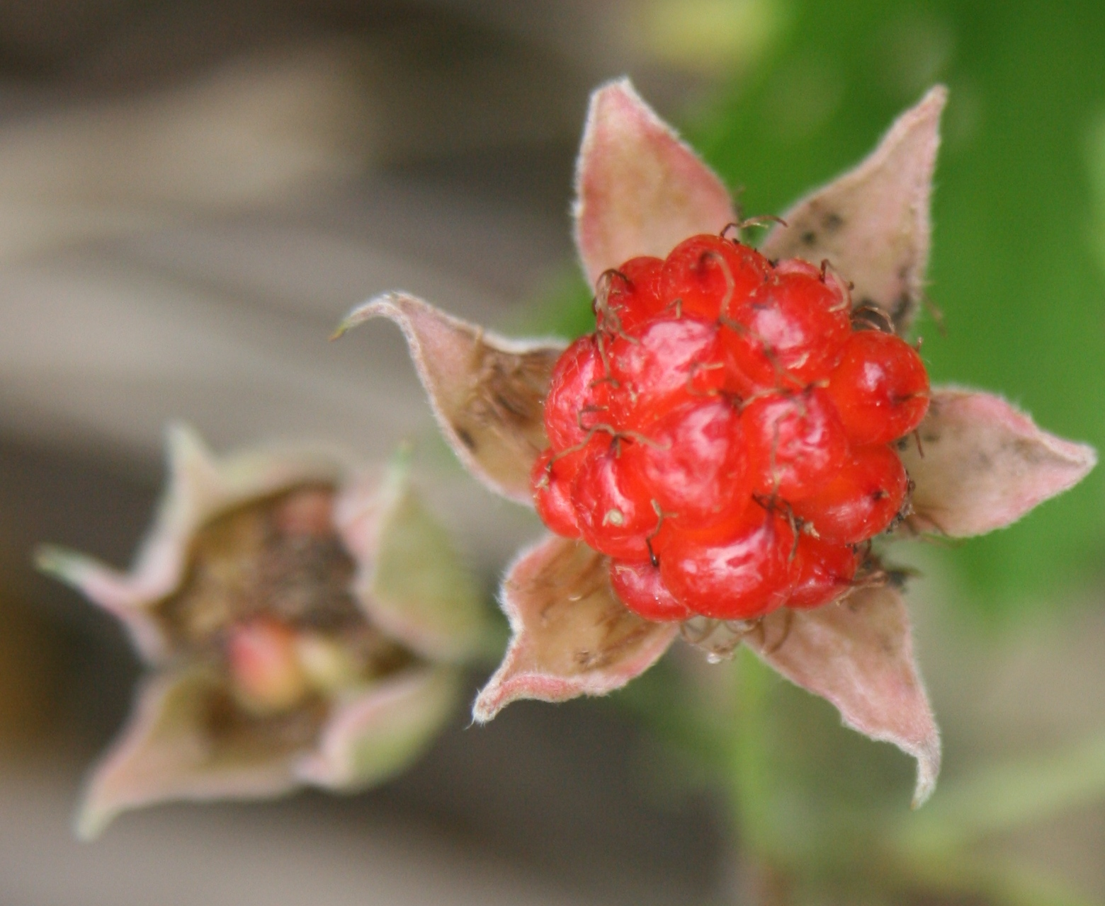 Rubus parvifolius -fruit in Mount Ibuki